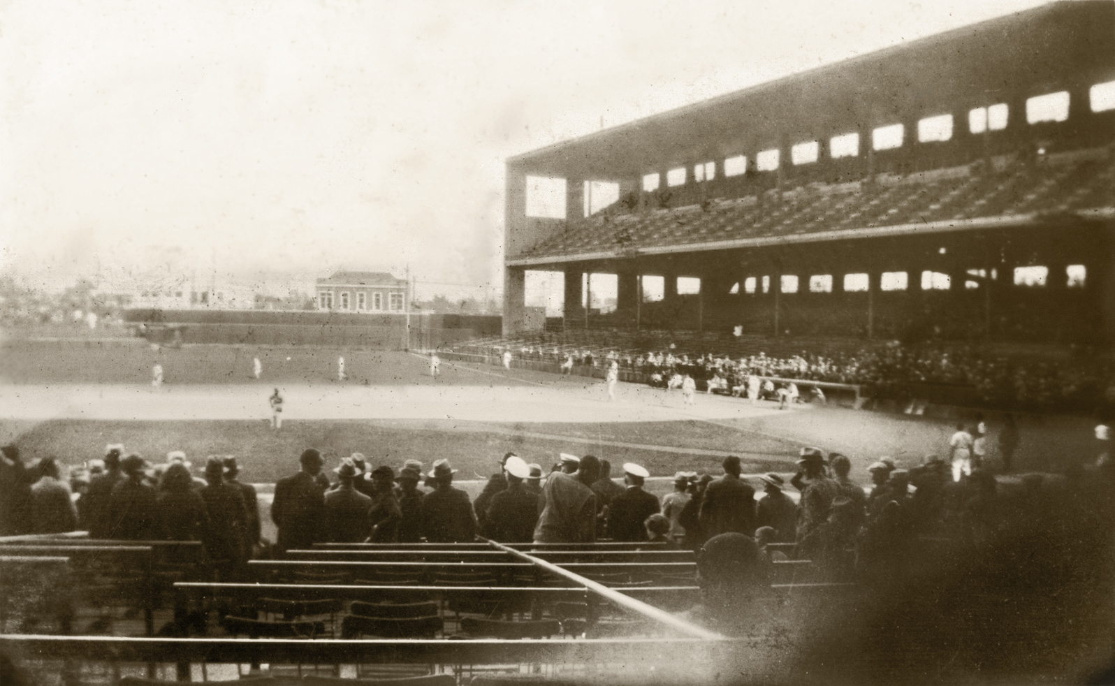 My father, Lee Minor (1914-2009), grew up on the west side of Chicago. He joined the Civilian Conservation Corps in 1933 at the age of 18. A first generation American just graduated from high school, the CCC seemed the best of the few options available to him as the Great Depression deepened. This photo and the caption below are from a scrapbook he kept during the years he served in "Roosevelt's Tree Army," separated from his home and family for the first time in his life. video: Youth Jobs Program During Great Depression (7:25) • National park backers call for creation of a service corps similar to the Depression-era CCC -LA Times